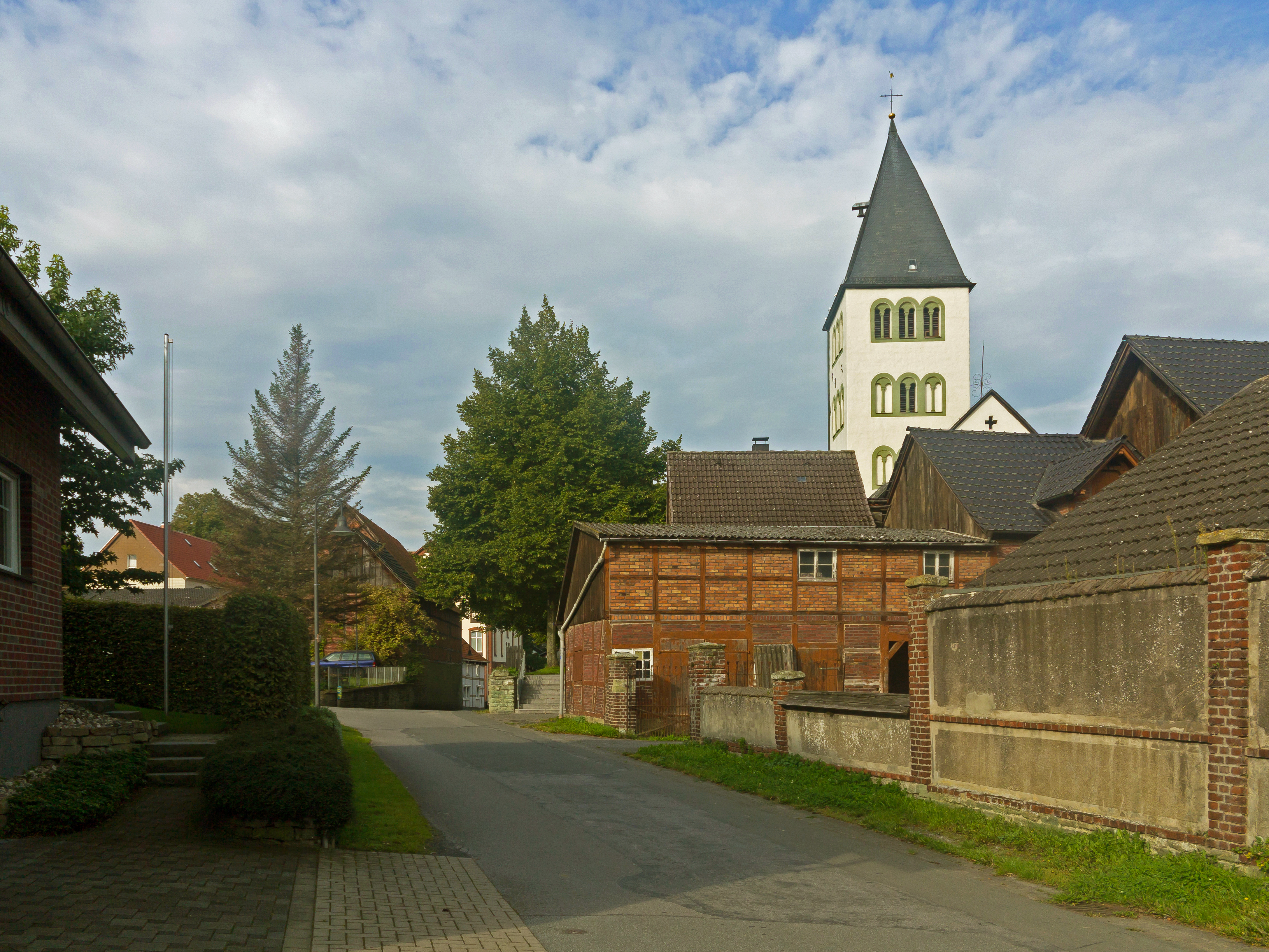 Ostönnen, churchtower (the St. Andrew's Church) in the street This is a photograph of an architectural monument., no. 365